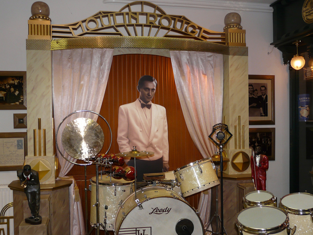 The drummuseum in Cegléd (Hungary)